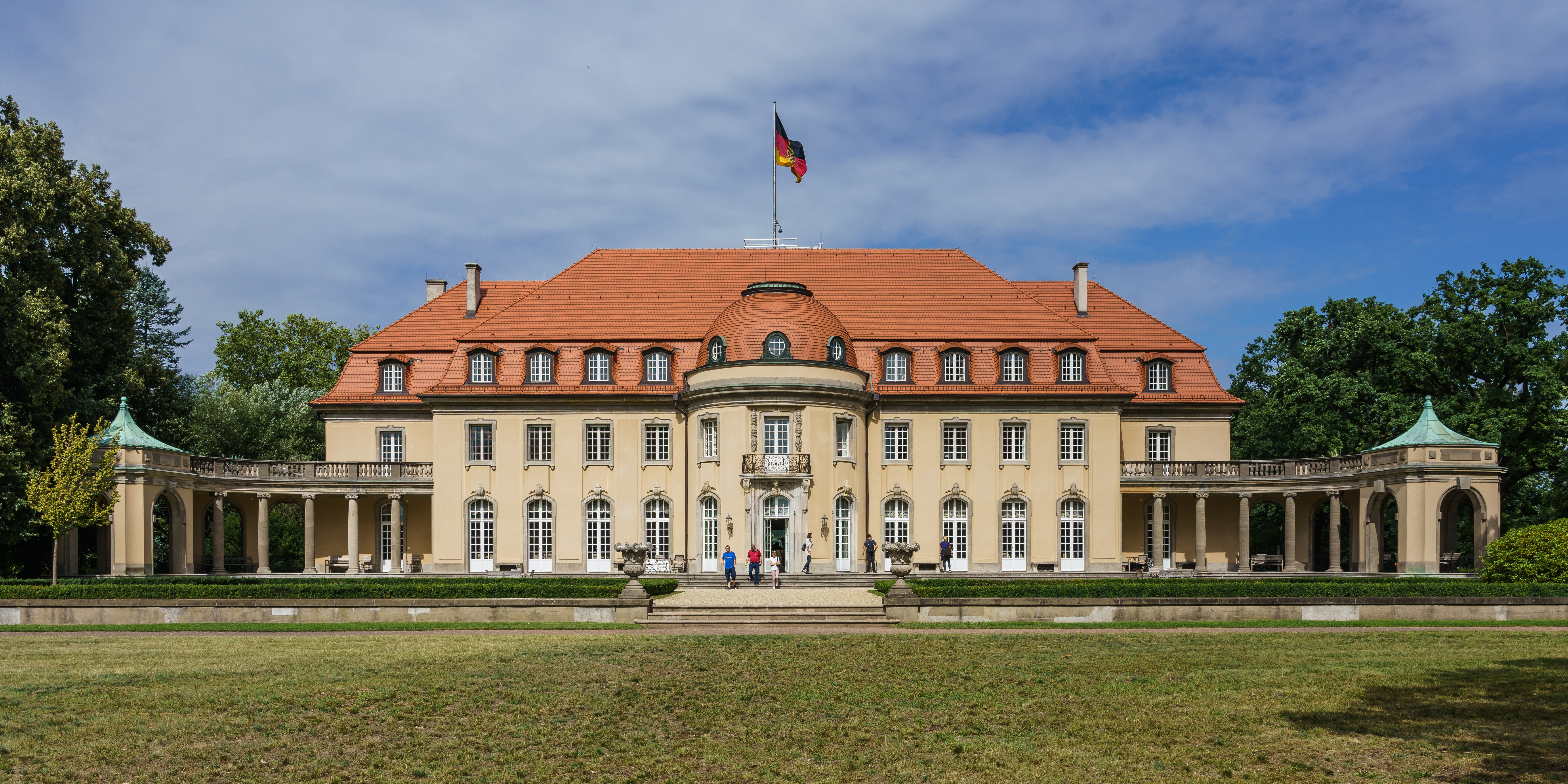 Borsig villa at Lake Tegel in Berlin, Germany